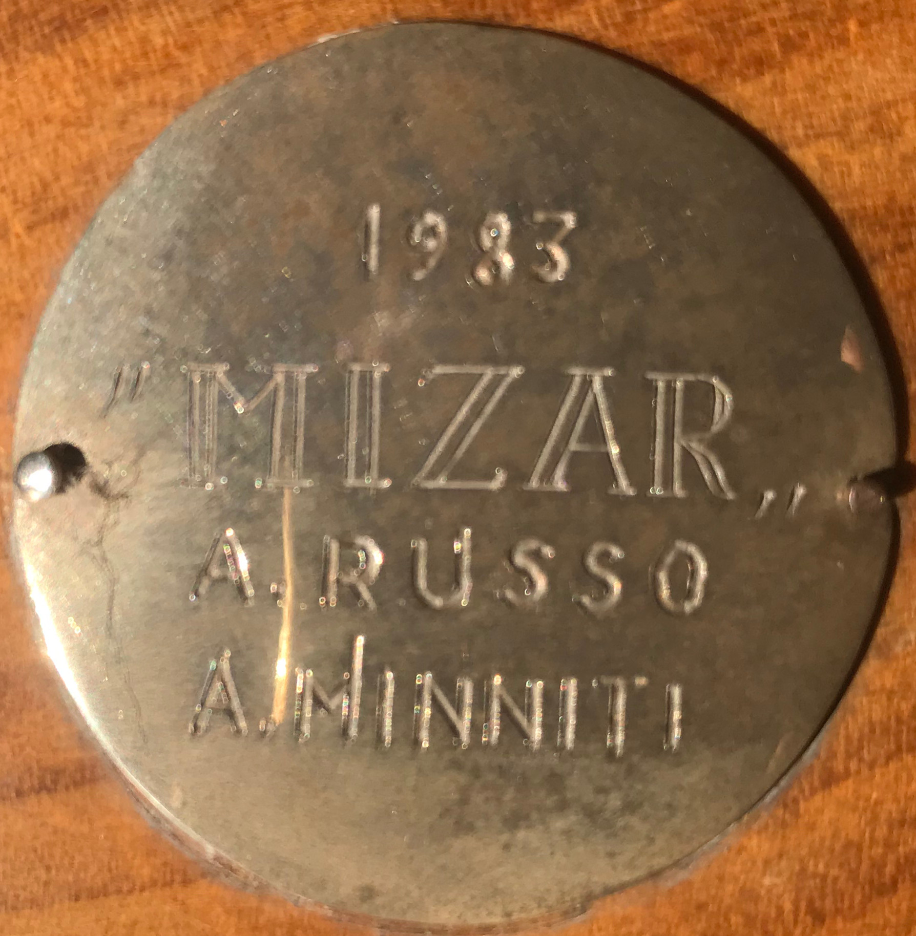 Patch on the Trophy